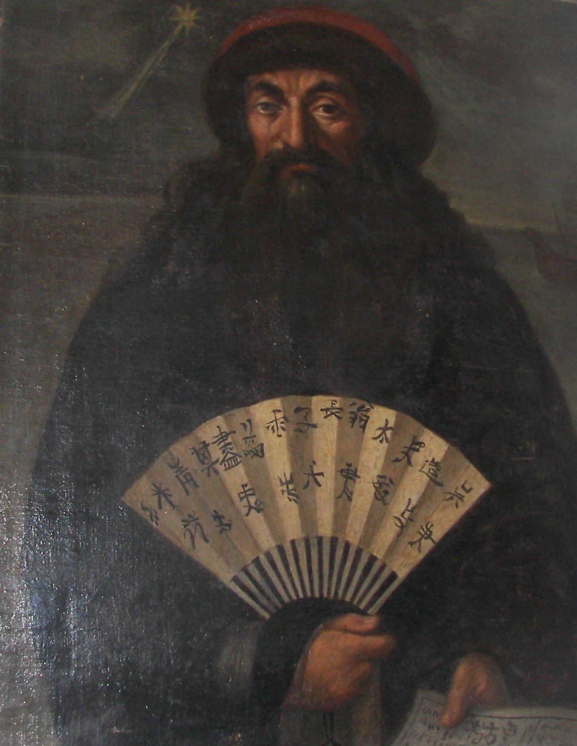 Portrait of Prospero Intorcetta - Oil on canvas - Author Luigi Pizzullo - 1885 - City Hall building Piazza Armerina - Sicily